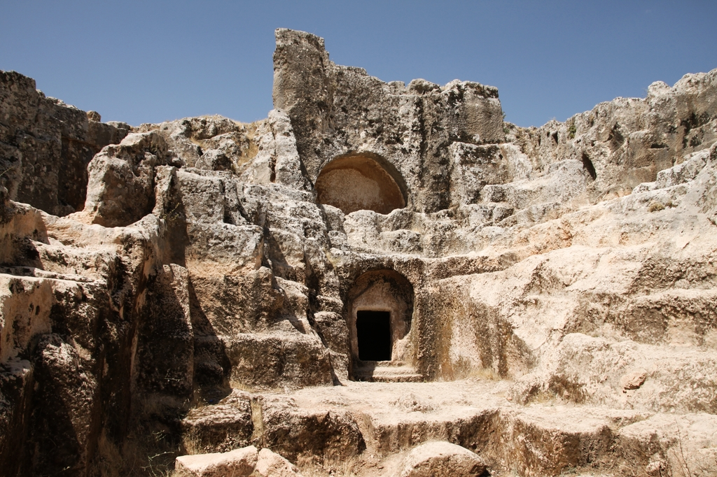 Arcosolium: The Ancient city Πέρρη (Perre), the Roman Pordonnium, today Pirin in Adiyaman, Turkey... [Larger photo exists] Ancient Perre of the Commagene Kingdom